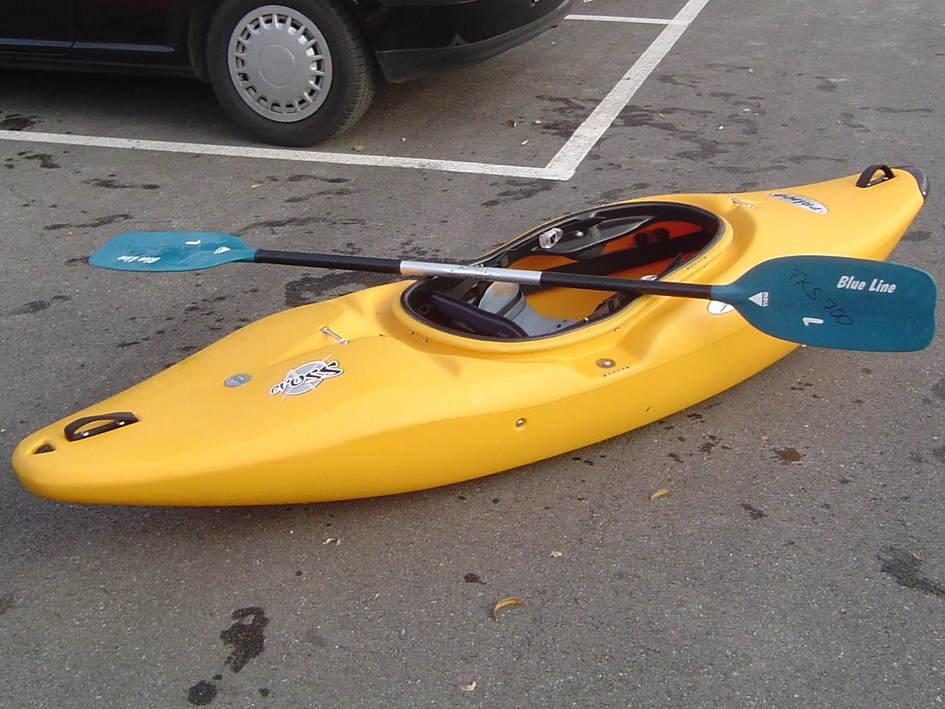 Whitewater kayak, type Prijon Cross